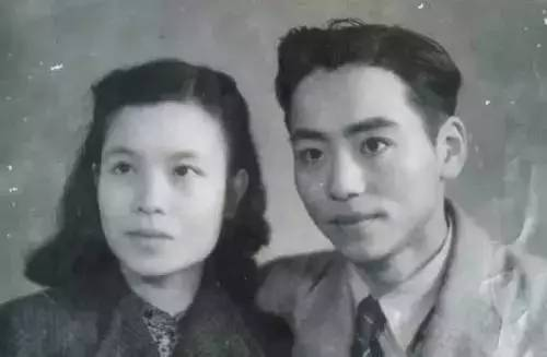 Chinese physicists Wu Zhonghua and Li Minhua